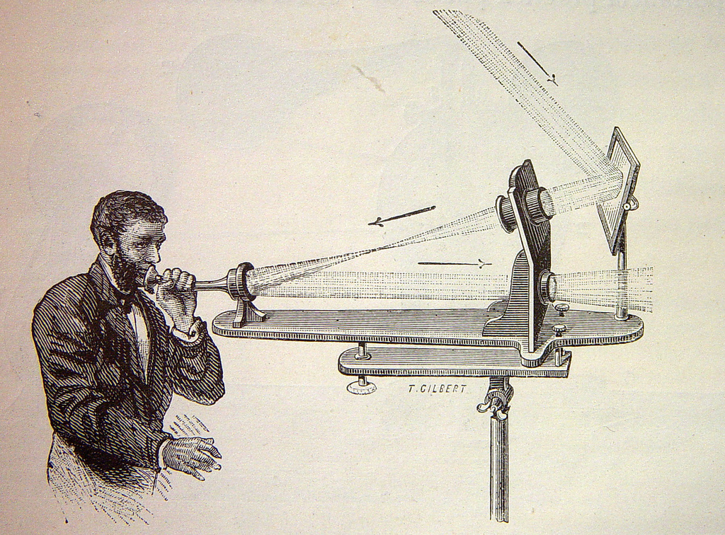 Illustration of the photophone's transmitter, originally from: El mundo físico : gravedad, gravitación, luz, calor, electricidad, magnetismo, etc. / A. Guillemin by: Guillemin, Amédée, published by: Barcelona Montaner y Simón, 1882